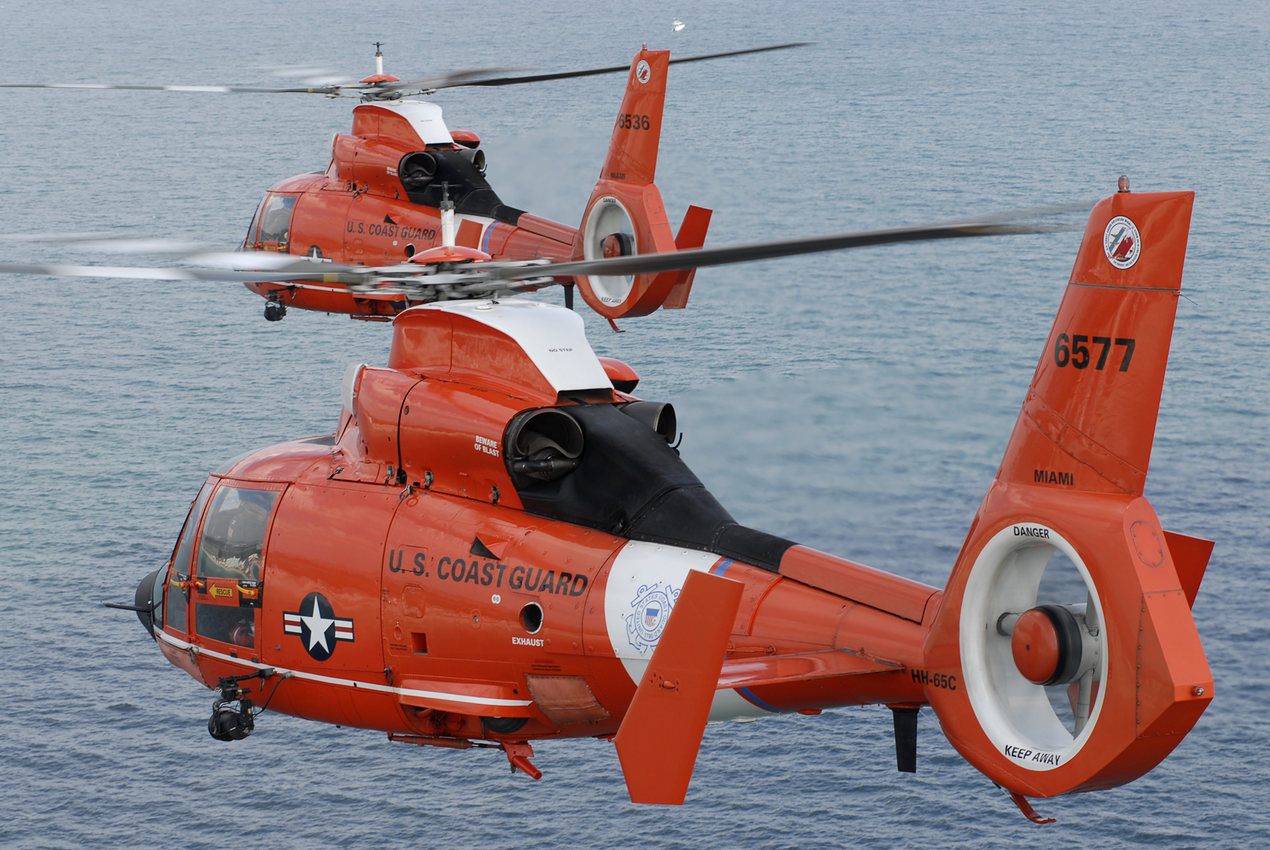 Two Coast Guard HH-65C Dolphin helicopters from Air Station Miami fly in formation over the Atlantic Ocean. The HH-65 is known for its Fenestron tail rotor and its autopilot capabilities, which can complete an unaided approach to the water and bring the aircraft into a stable 50 foot hover, or automatically fly search patterns, an ability which allows the crew to engage in other tasks.